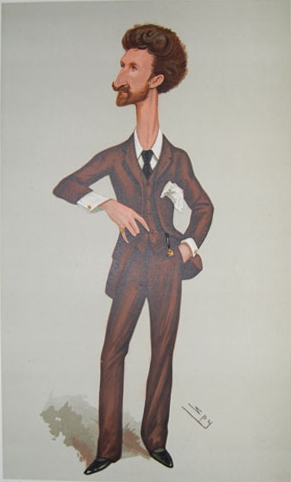 Caricature of Robert Bontine Cunninghame Graham MP. Caption read "Trafalgar Square".